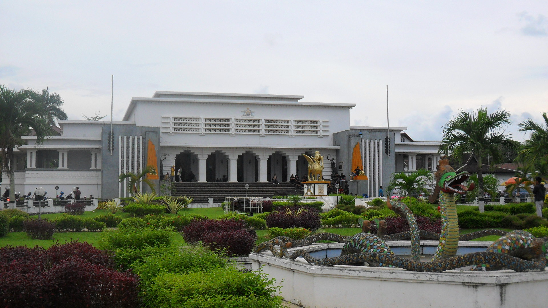 Mulawarman museum in Tenggarong town, Kutai Kartanegara regency, East Kalimantan, Indonesia.